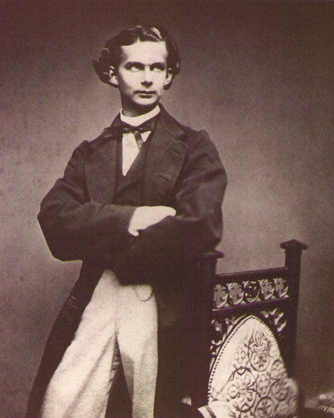 Ludwig (Louis) II, King of Bavaria, (1845-1886)